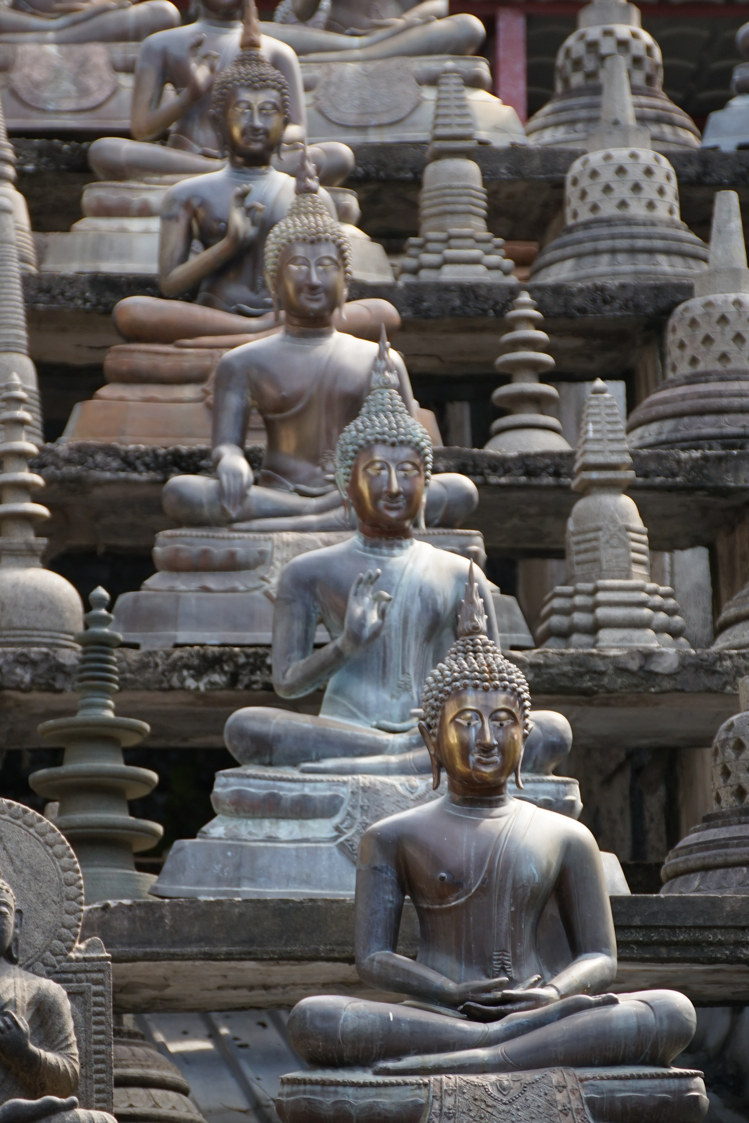 Rows of seated Buddha statues - Gangaramaya Temple, Colombo, Sri Lanka